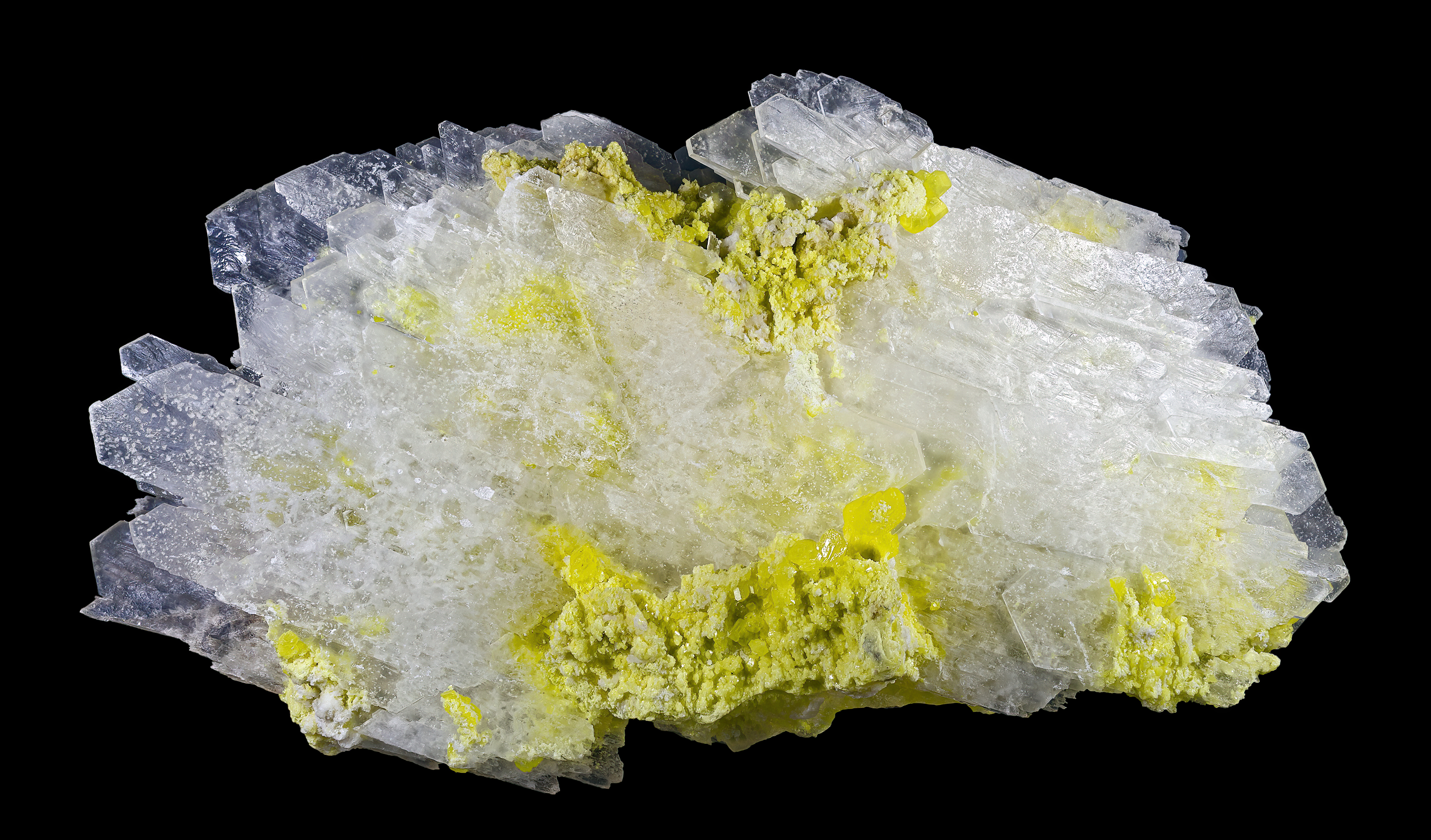 Gypsum with sulphur Locality: Cianciana, Agrigento Province, Sicily, Italy Size :32 x 18 x 10 cm